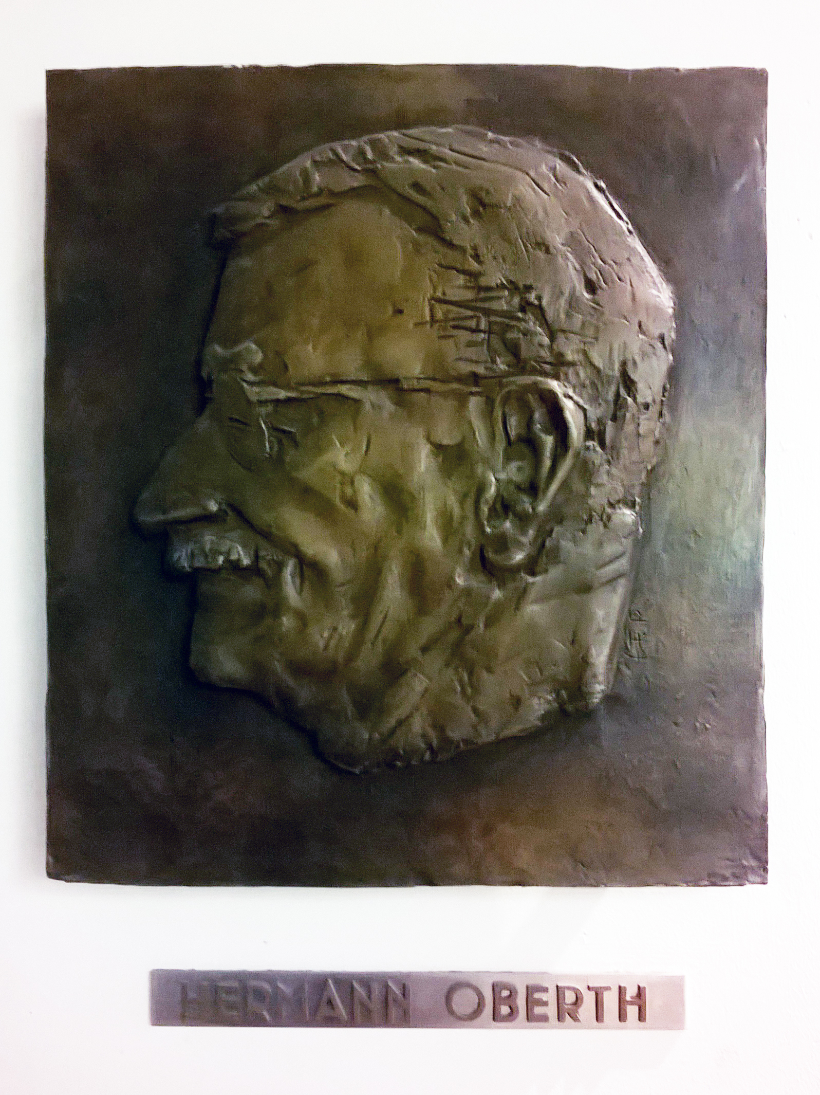 Relief, "Hermann Oberth" by Erich Fritz Reuter, 1974, Flughafen Berlin-Tegel, Berlin-Tegel, Germany